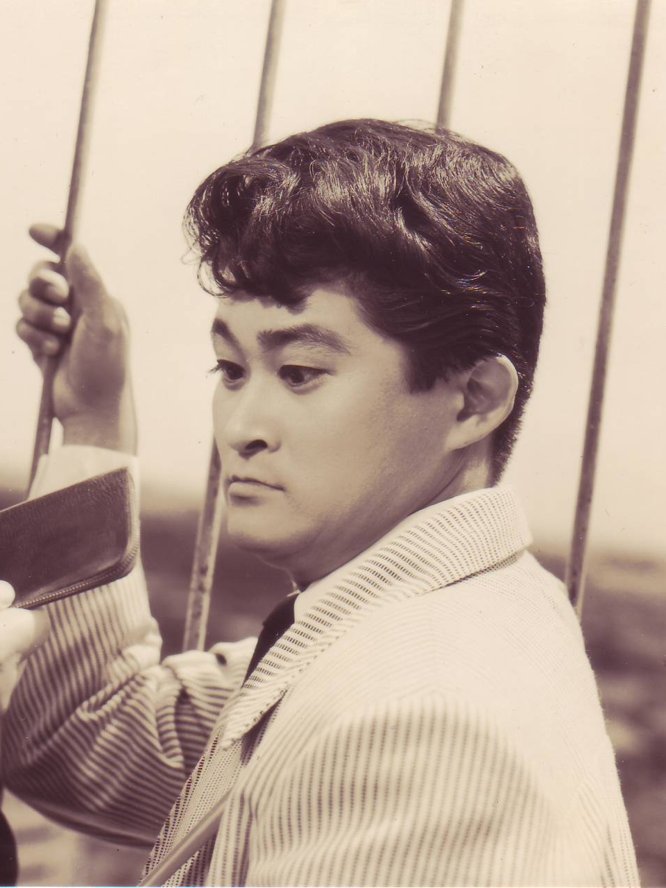 Frankie Sakai. Studio Still of the 1956 Japanese film "Chika kara kita otoko (Man from underground)" (Nikkatsu).